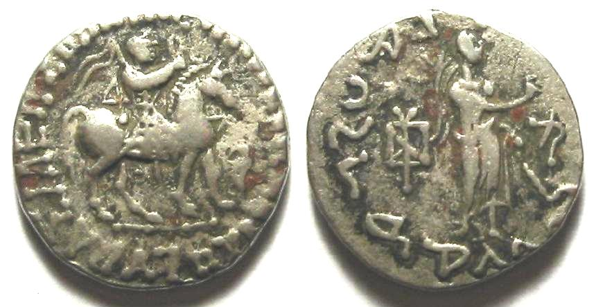 Coin of Azes II, 1st century BCE. Personal photograph, 2005. Released under GFDL.